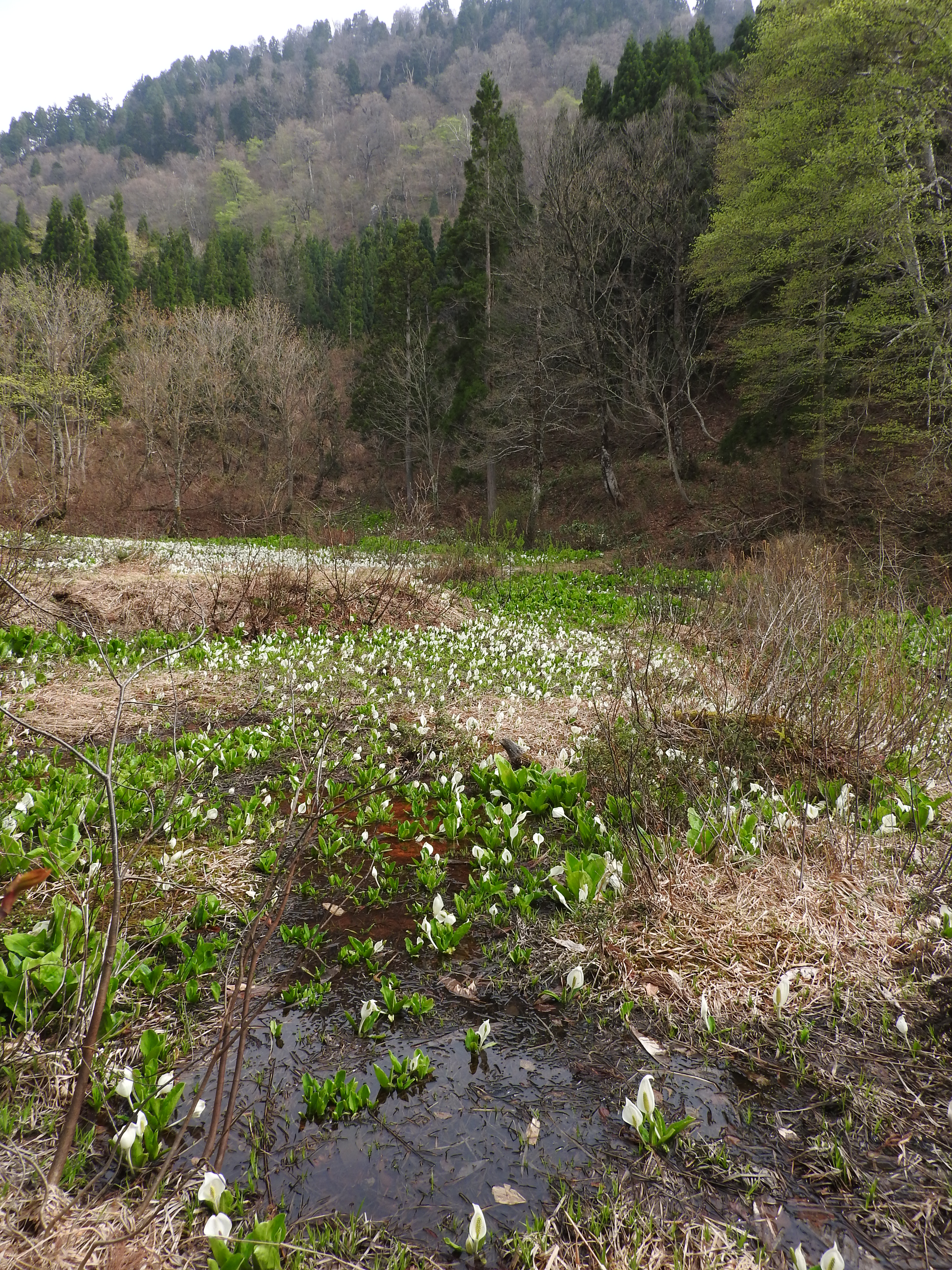 Lake of asian skunk-cabbages (Lysichiton camtschatcensis) at Shiramine-mura (Japan) (integrated to Hakusan-shi since 2005)